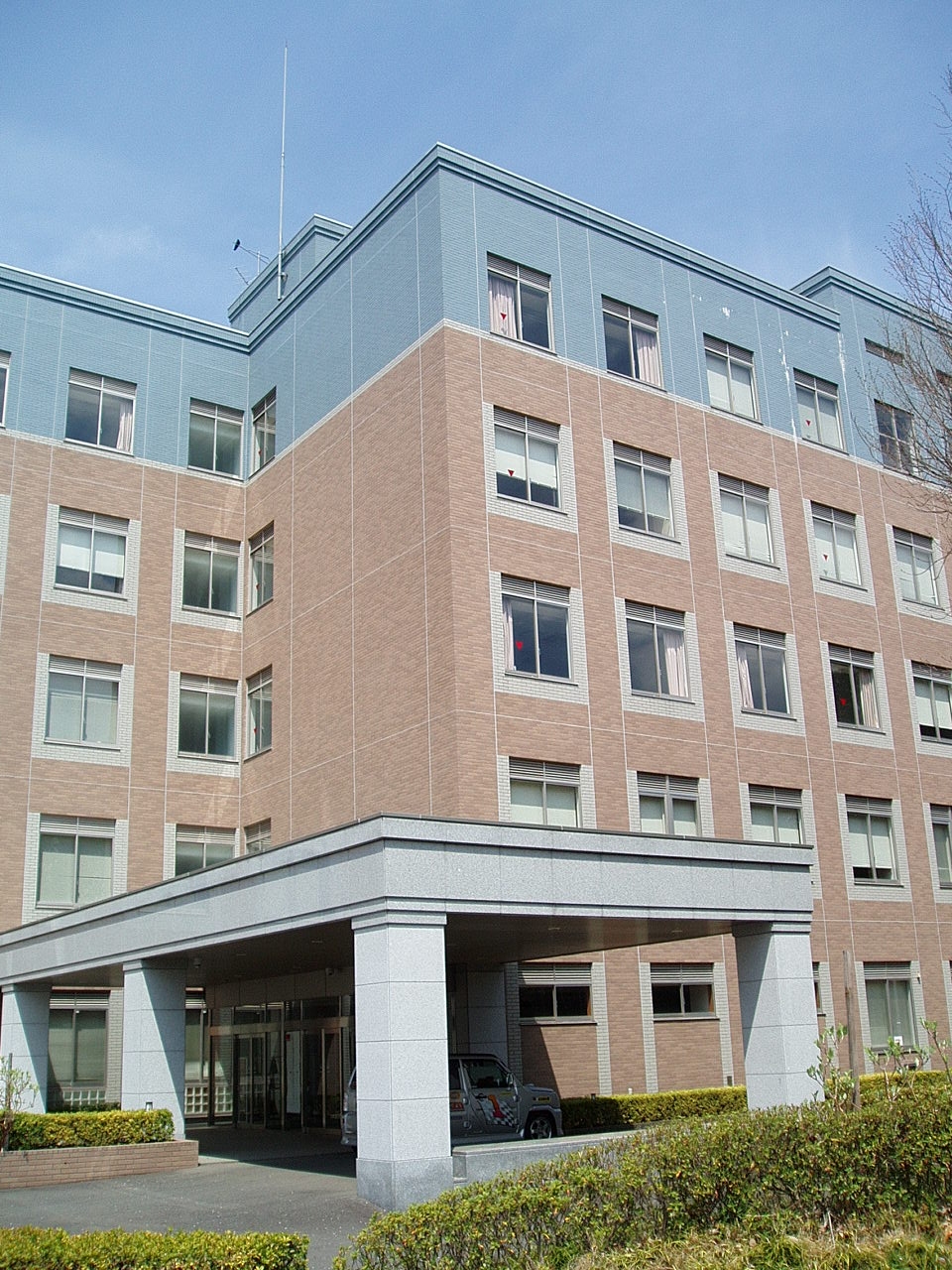 Faculty of International Business Administration, Kyoei University, located in Uchimaki, Kasukabe, Saitama Prefecture, Japan.